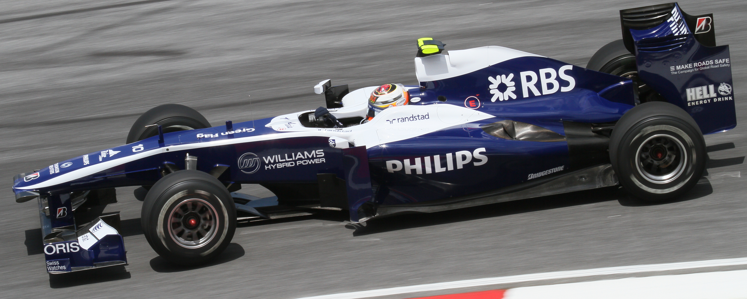 Formula One 2010 Rd.3 Malaysian GP: Nico Hülkenberg (Williams) during Friday 2nd Free Practice session.